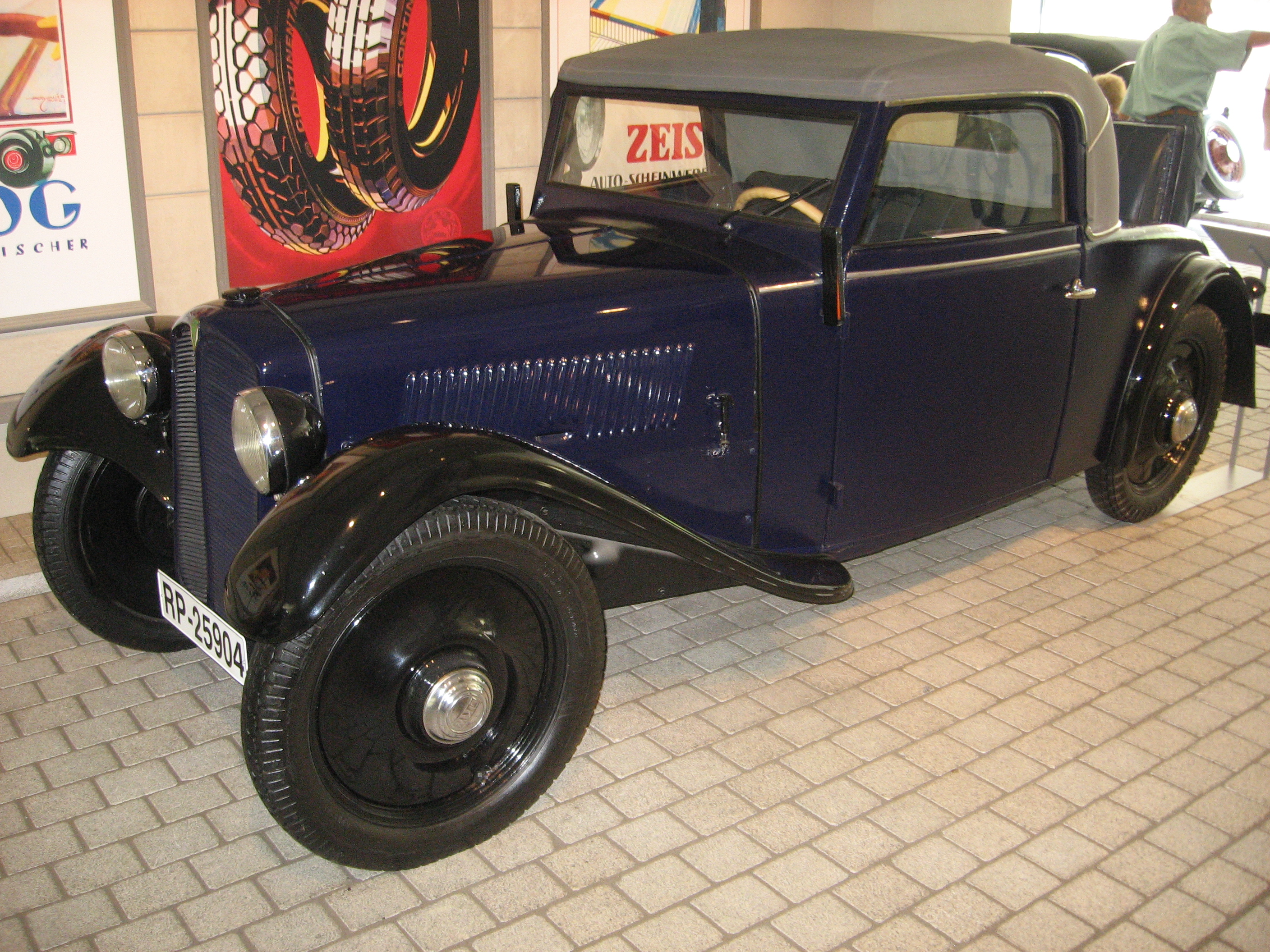 Subject: DKW F2 Reichsklasse Zweisitzer Cabrio-Limousine Author: Luc106 Date:September 12th, 2011 Place/Country: Horch Museum, Zwickau (Deutschland) I release all rights in the public domain. Licensing